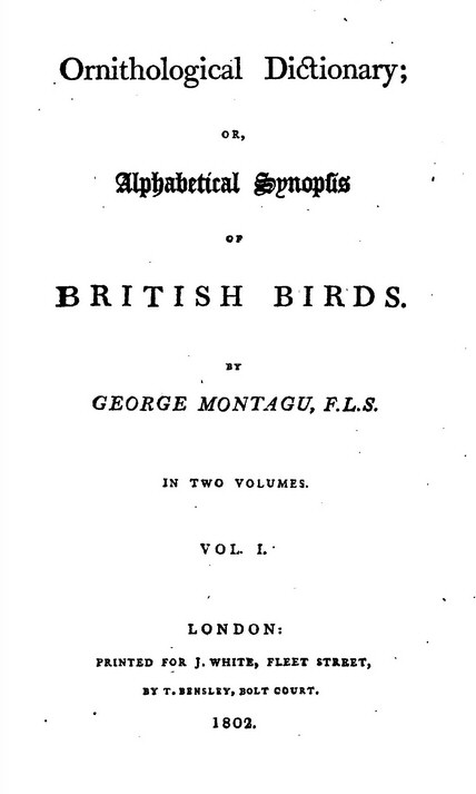 Title page of George Montagu's Ornithological Dictionary, or Alphabetical Synopsis of British Birds, in two volumes, printed for J. White, Fleet Street by T. Bensley, 1802.